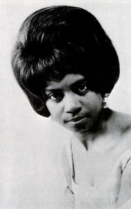 Trade ad for Fontella Bass's single "Rescue Me".To better adapt it to his respective Wikipedia article, the ad was cropped and cleaned in a graphics editing program. The original can be viewed at the source below.